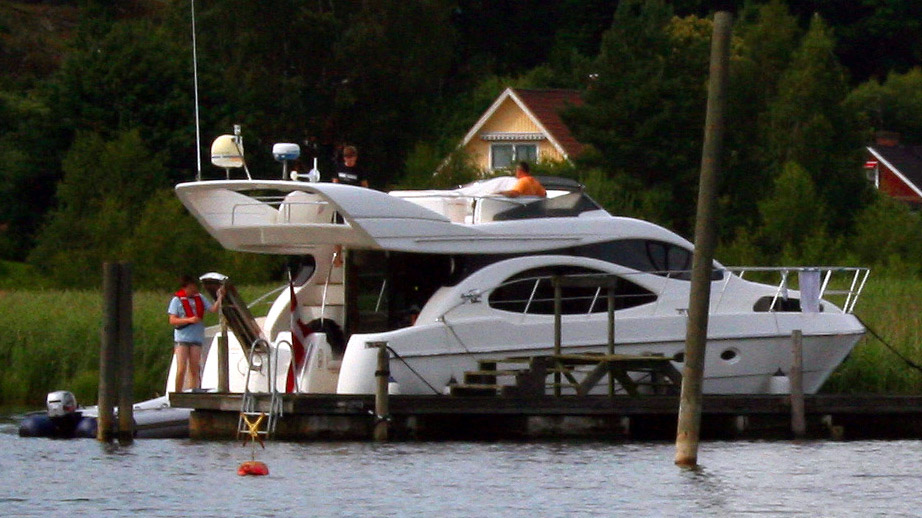 An Azimut motor yacht